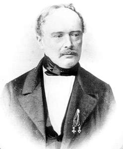 The german politician Friedrich von Podewils (1804-1863)